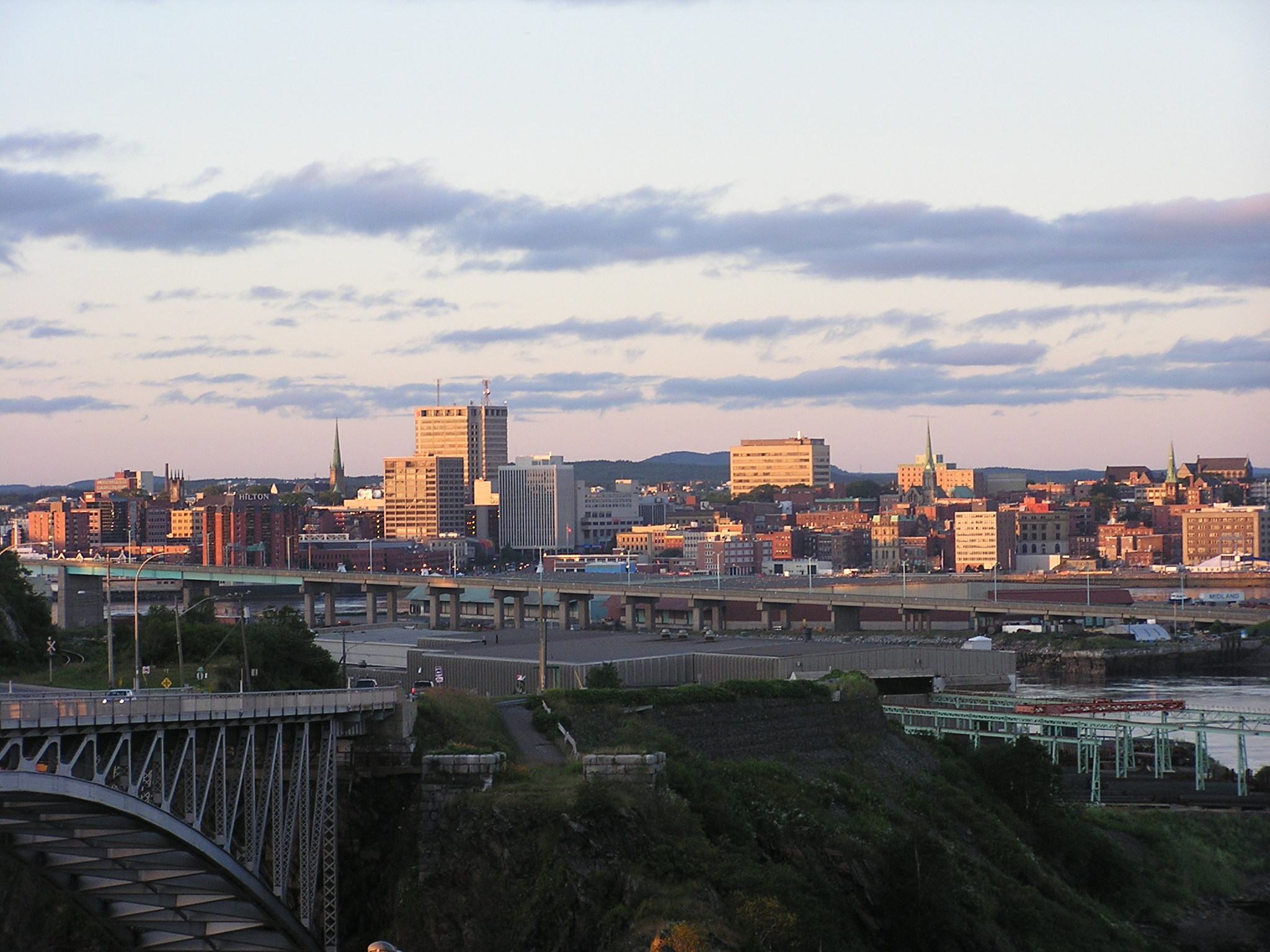 I took this photo in July 2006 and am putting it here in the Commons for all to use.